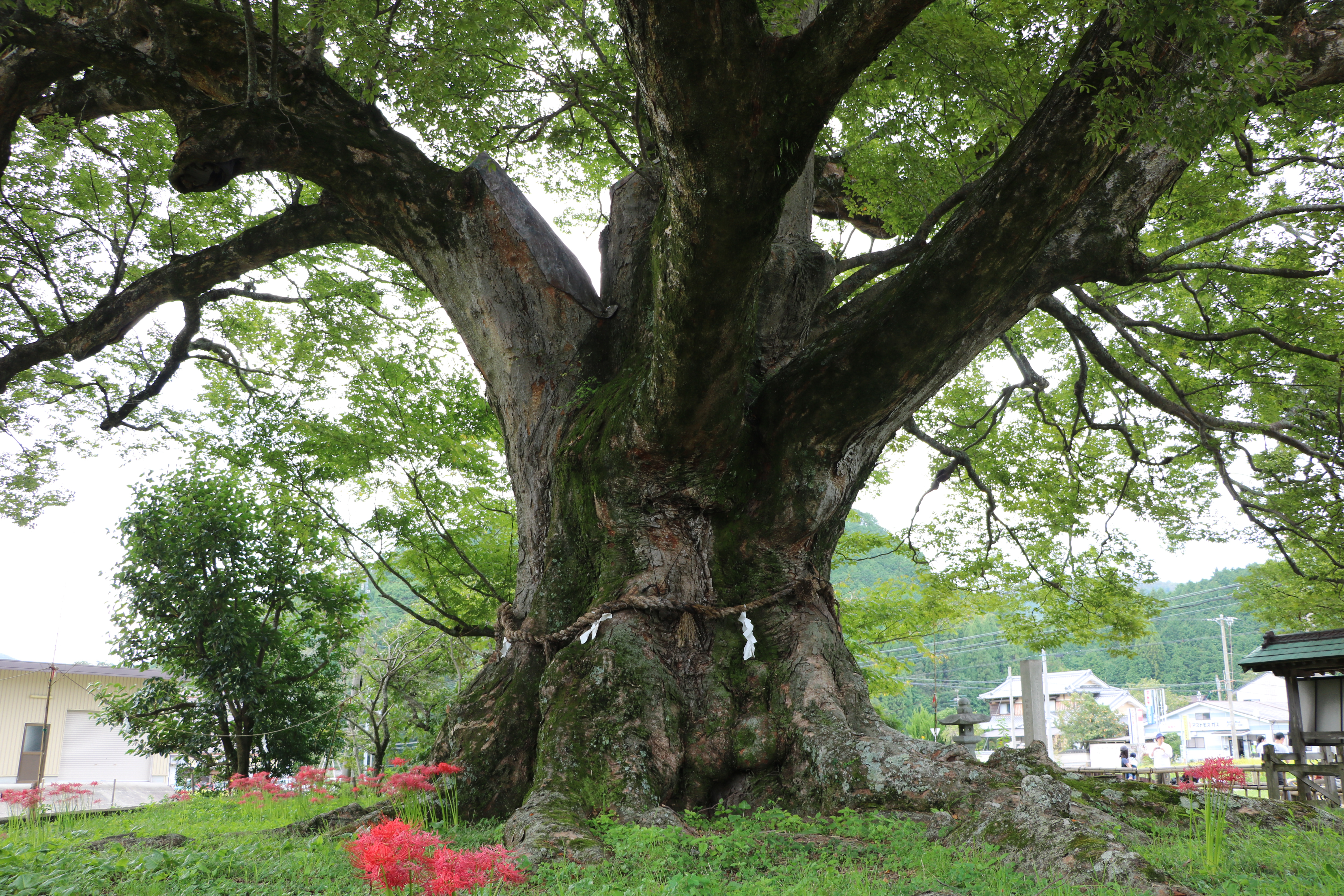 Large zelkova of Noma